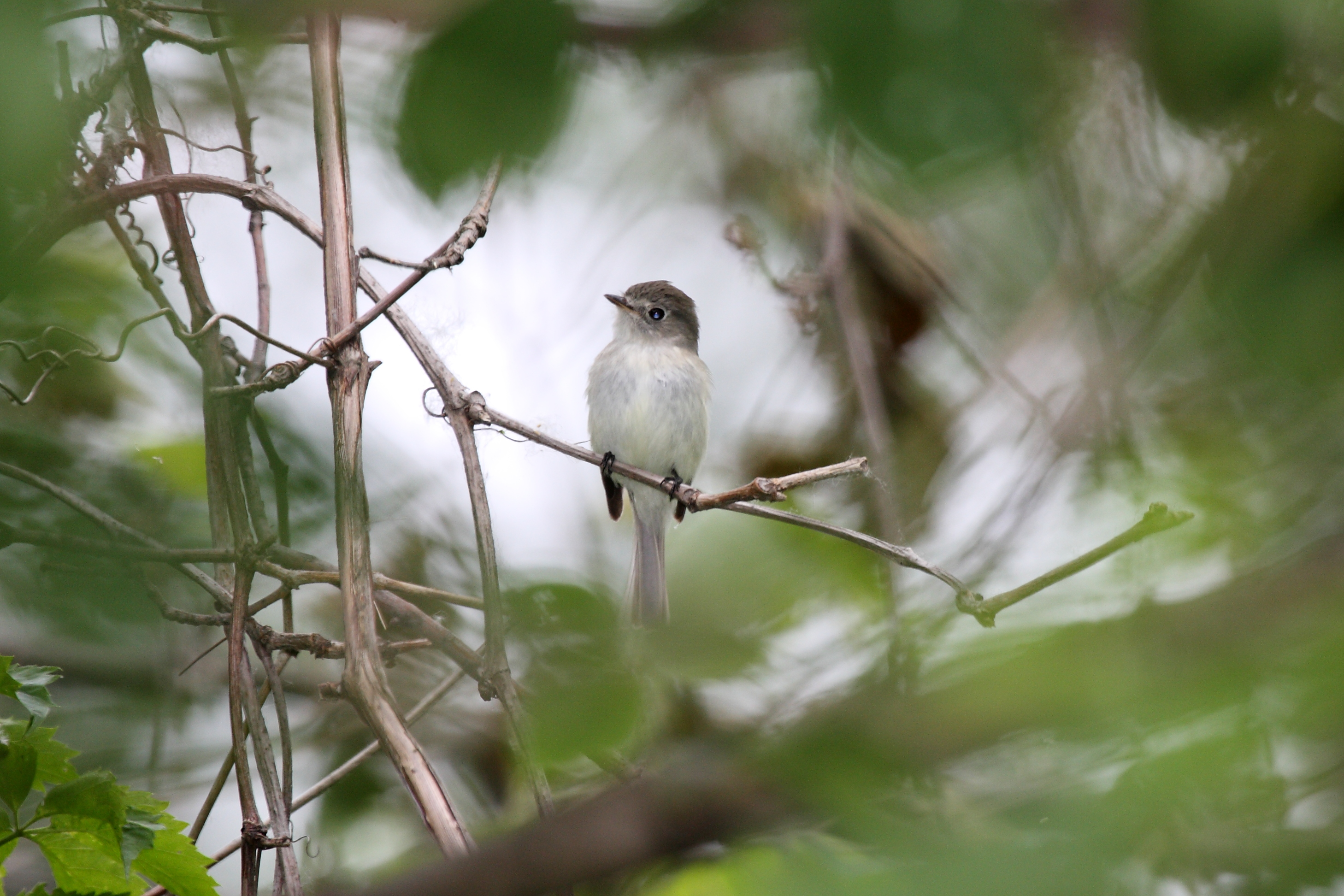 Photographed in Ohio, identified by call.